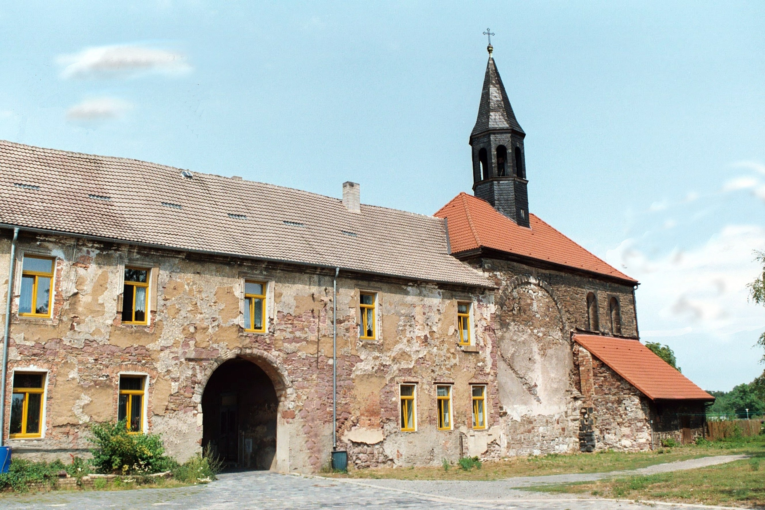 Wimmelburg, the monastery church St. Cyriacus